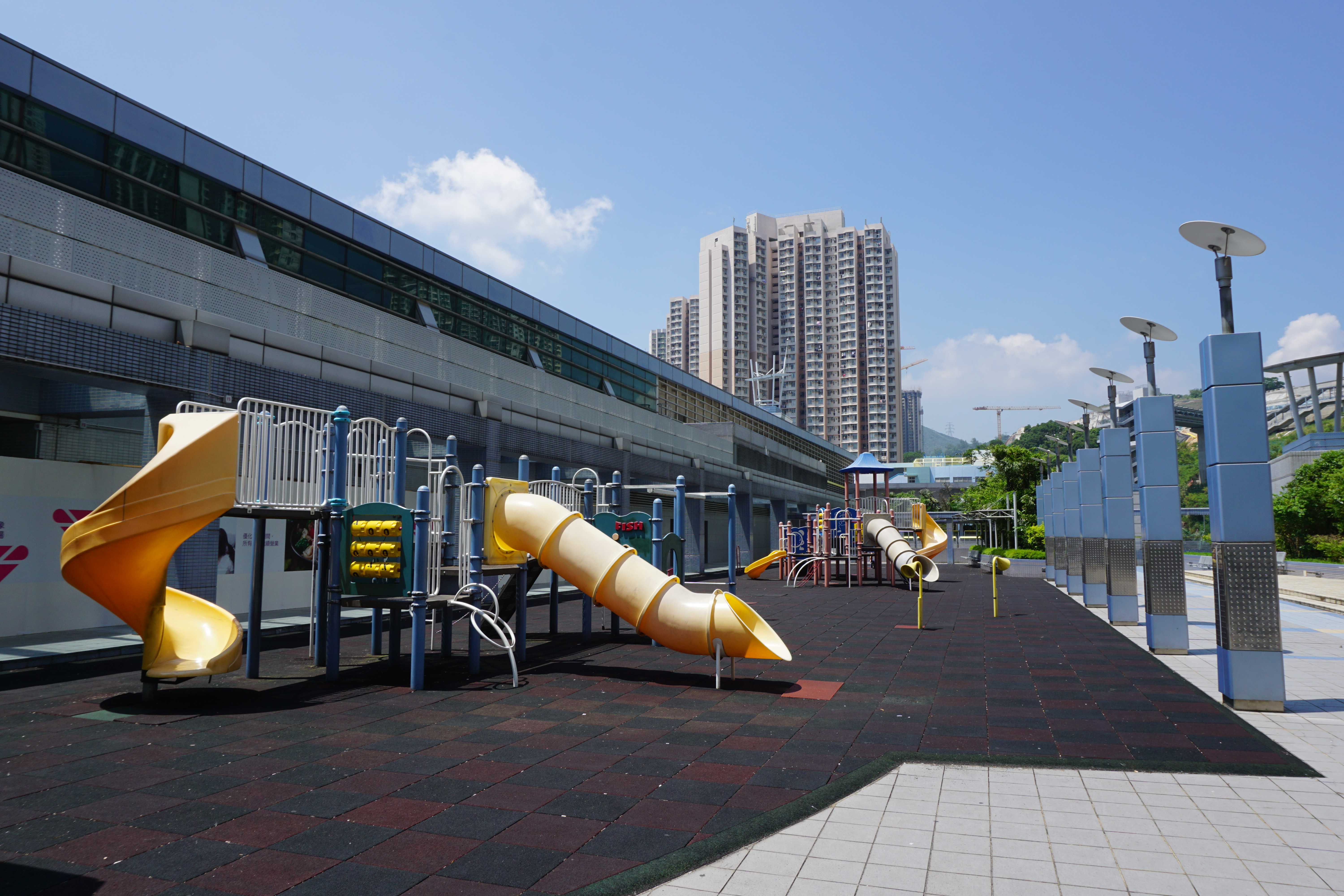 Sau Mau Ping Shopping Centre in Sau Mau Ping, Hong Kong.